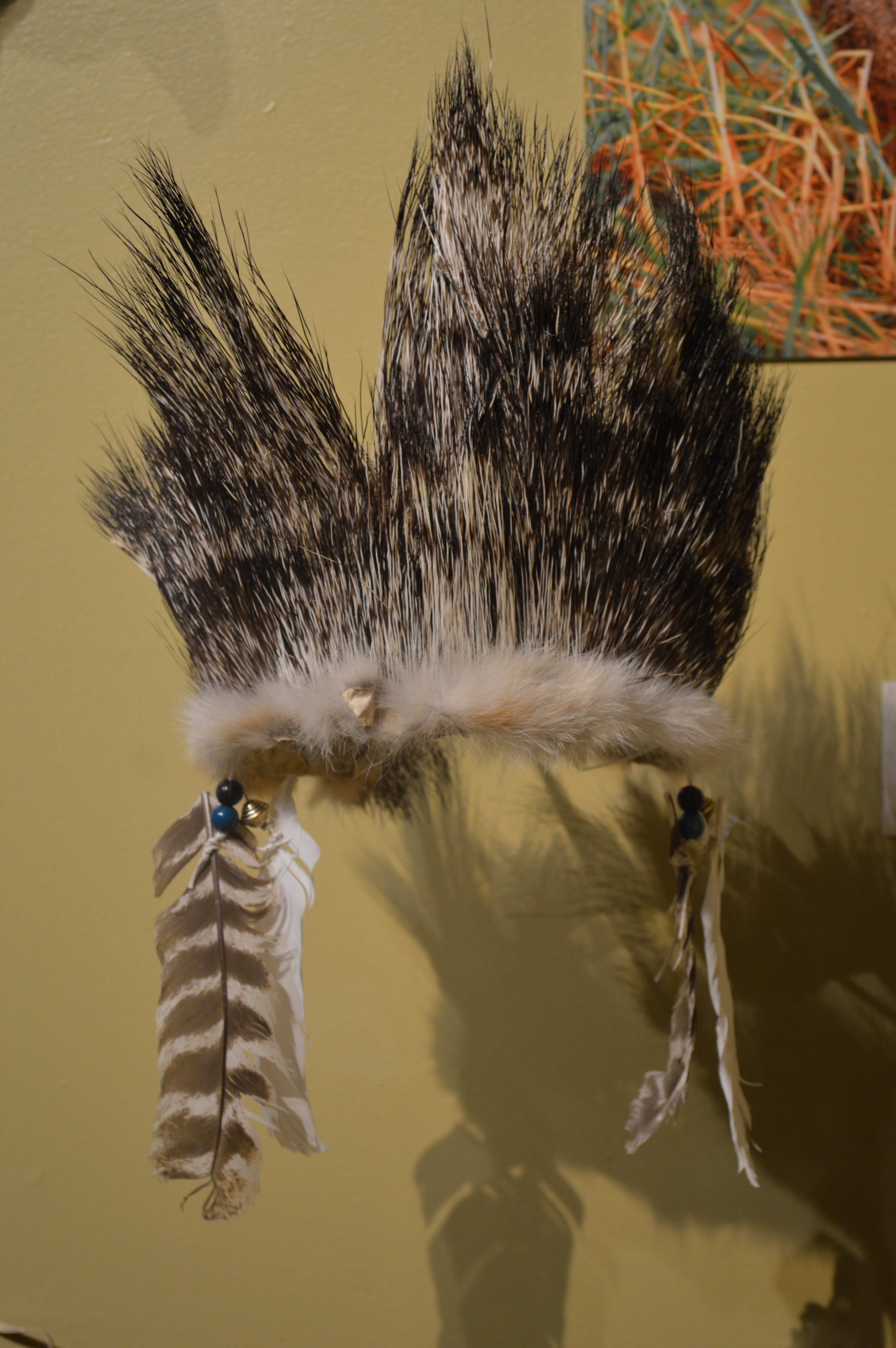 Porcupine headress from Sonora at the El Norte, su materia, su artesania exhibition at the Museo de Arte Popular in Mexico City